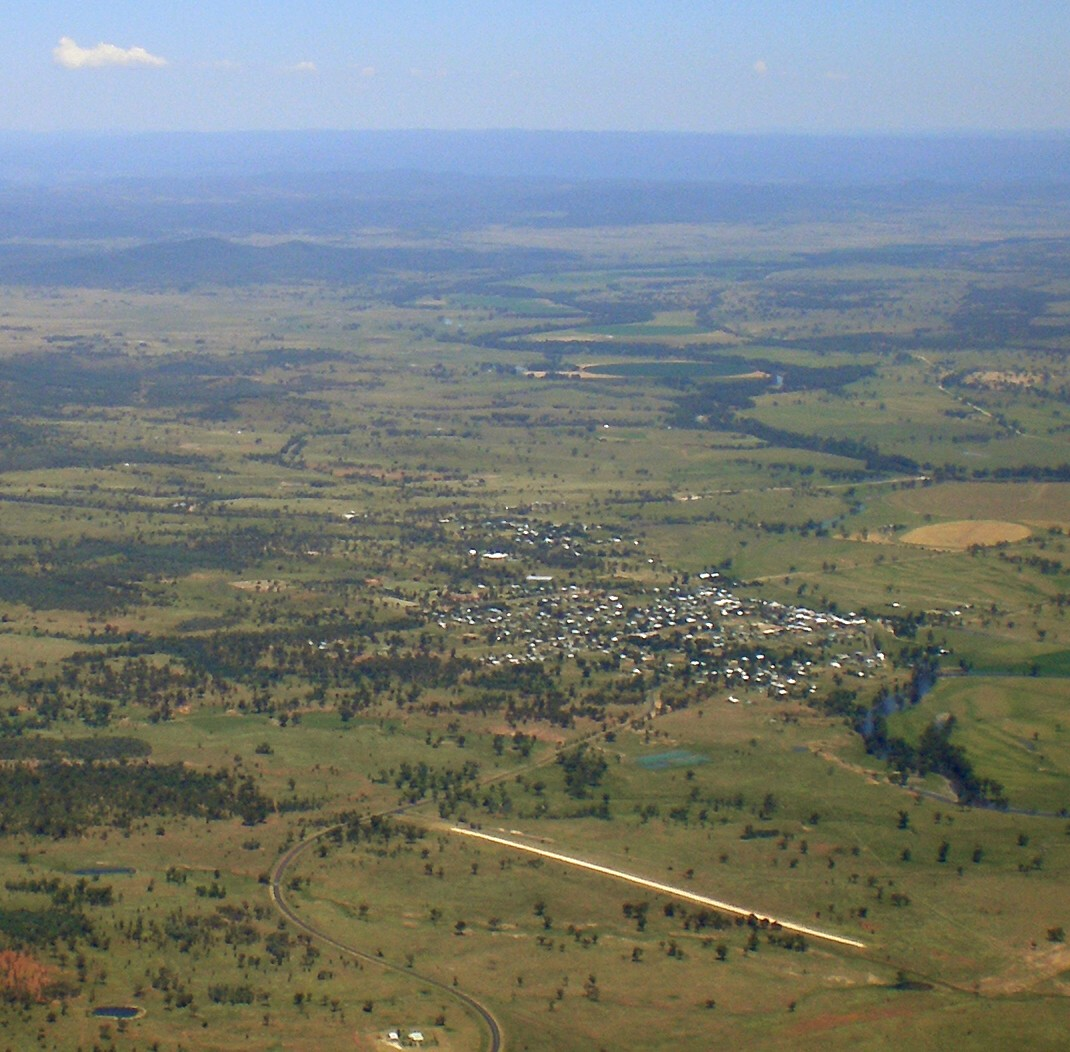 Aerial view of Texas taken in January 2010, looking southward